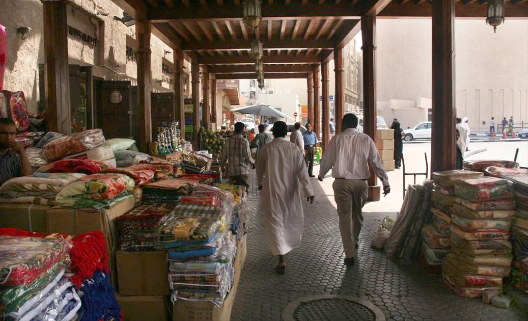 This is a photo of a souk in Deira, Dubai, United Arab Emirates on 9 May 2007.